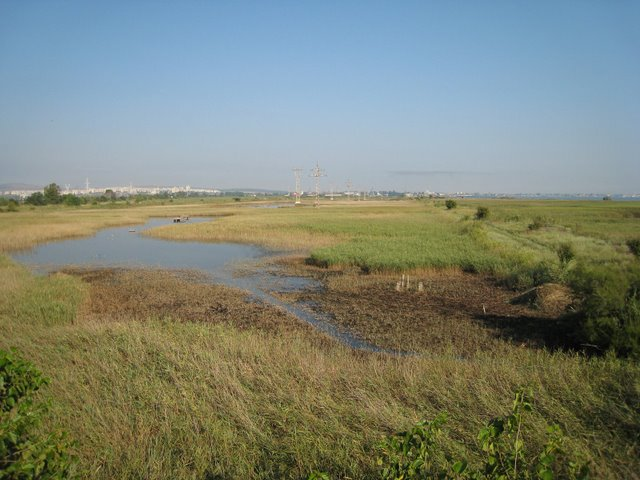 view from the terrace of the nature center looking out over the protected area